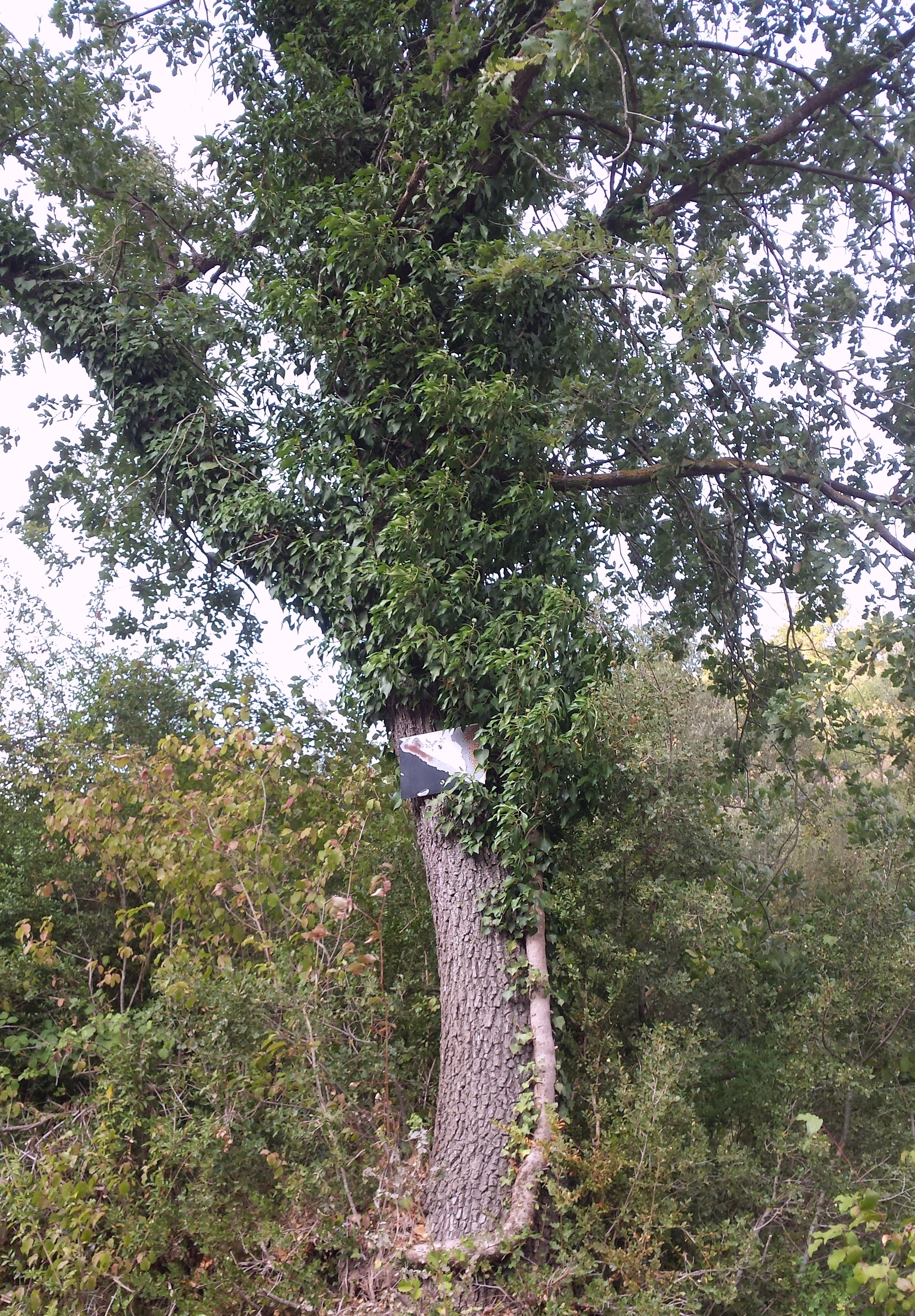 Ivy (Hedera helix) on Quercus pubescens, Castelltallat, Catalonia